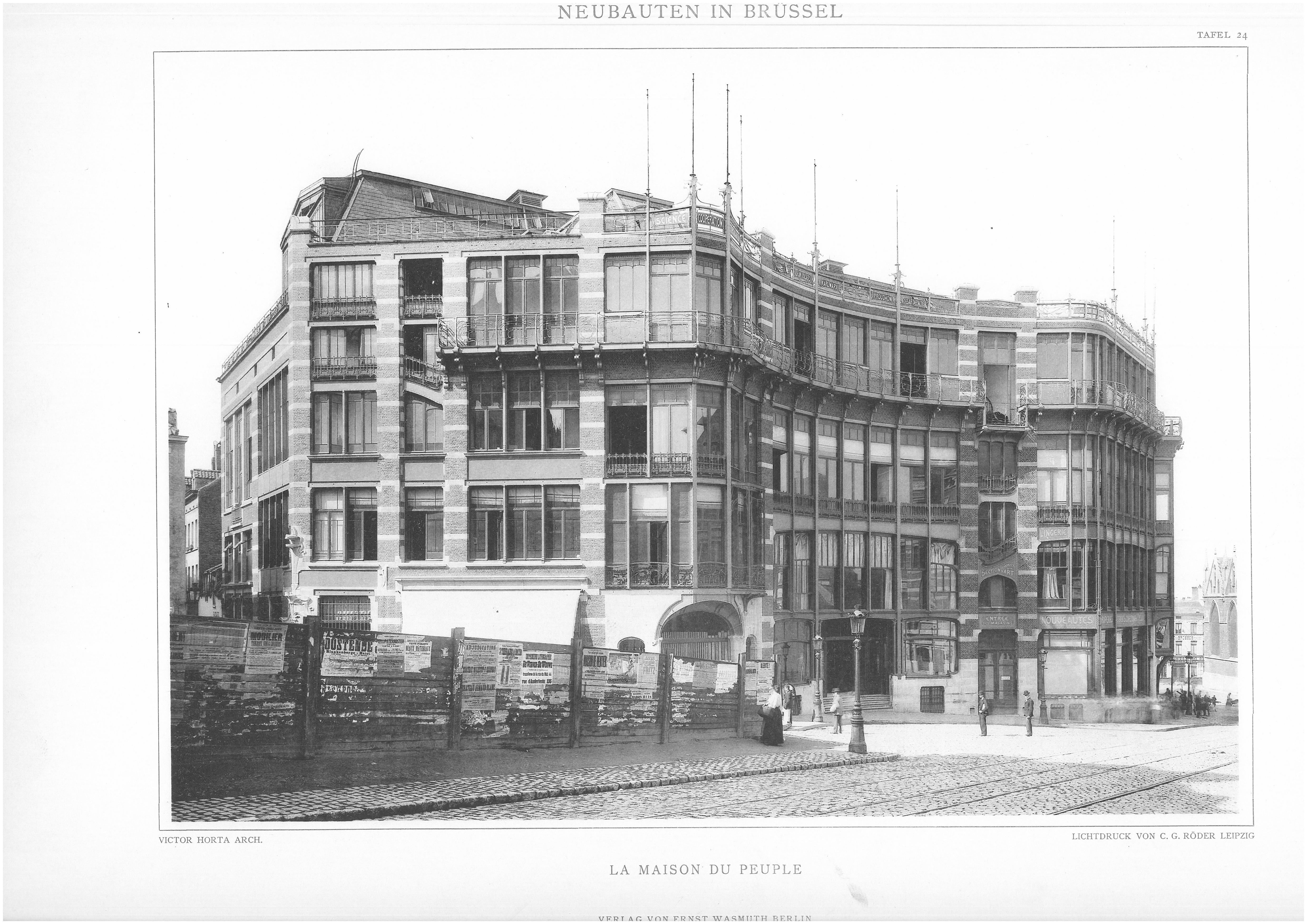 Maison du Peuple of the P.O.B. (Belgian Workers Party) (destroyed, Brussels), exterior 3, collection Hortamuseum